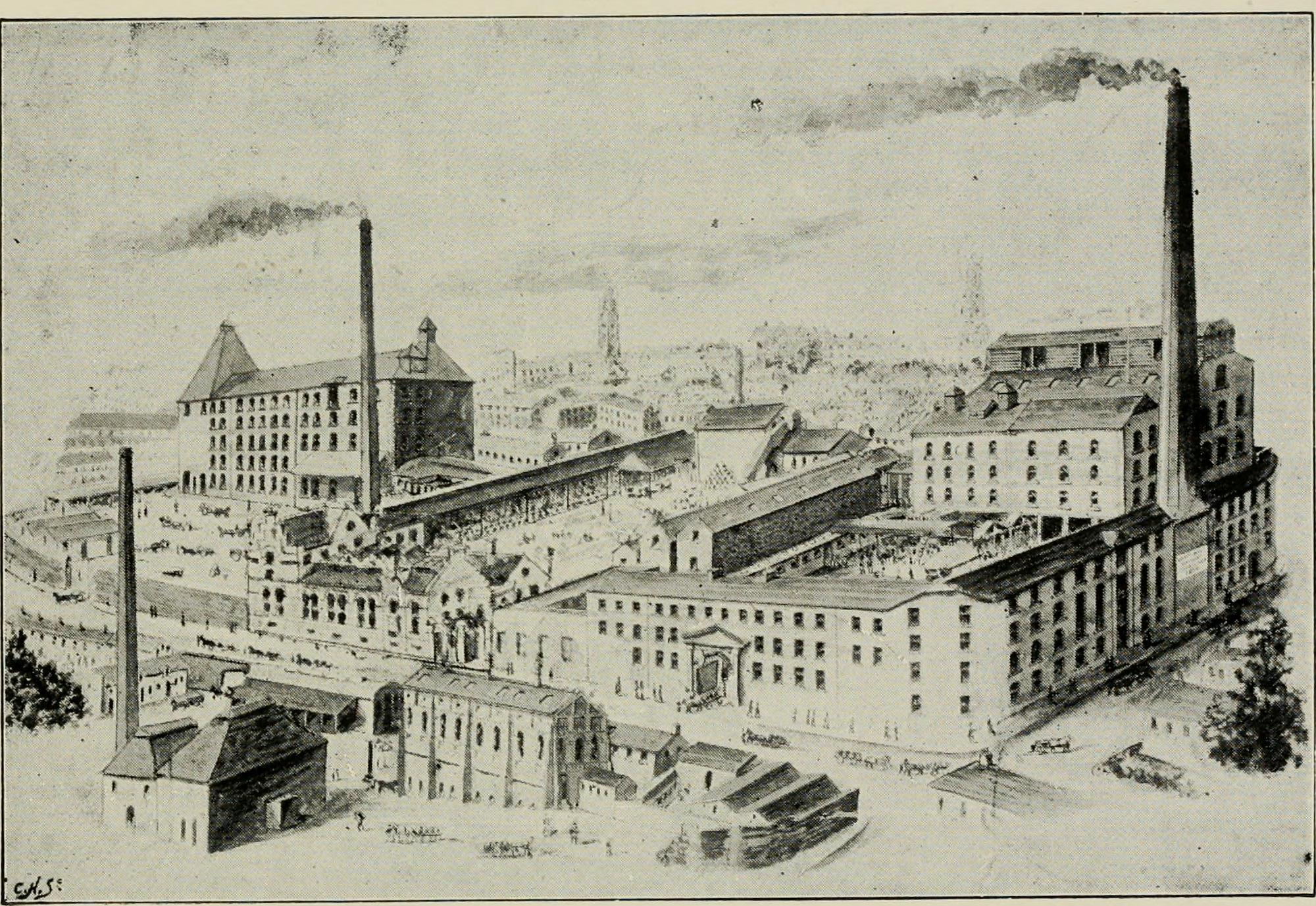 Title: Ireland; industrial and agricultural Year: 1902 (1900s) Authors: Ireland. Dept. of Agriculture and Technical Instruction Coyne, William P Subjects: Agriculture -- Ireland Lace and lace making Industries -- Ireland Ireland -- Economic conditions Publisher: Dublin (etc.) : Browne and Nolan, limited Text Appearing Before Image: ' Text Appearing After Image: THE BREWING INDUSTRY IN IRELAND. 477 liolders Committee were unsuccessful in forming a Directorate to restart it, hetook up the undertal^ing which appeared at the time to be hopeless, formeda Board of Directors, and re-opened the Bank under the title of the Mun-ster and Leinster Bank, with a very limited amount of capital at its disposaland in the teeth of the most adverse criticism. From 1885 to 1888 he gavethe liquidation of the old bank and the budding business of the new bankhis undivided attention, and, before he died he had the satisfaction of seeingthe old bank satisfactorily wound up and the new one in a sound financialposition. Few realised the far-reaching view he took of the situation at thetime of the failure. His opinion was that, unless the liquidation of the oldbank was voluntary, and the new one started to take over and nurse theaccounts locked up by the closing, the South of Ireland would receive amonetary shock from which it would take years to recover. Ably assisted